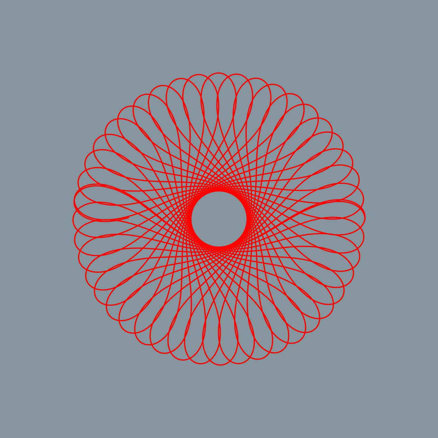 The picture shows the influence of the strong external magnetic field on the Kepler motion of the electron in the Coulomb field of the nucleus. With the same initial condition the trajectory would be a Kepler ellipse. With the magnetic field present under the influence of the Lorentz force the trajectory is a rotating 8-shape with the angular frequency much lower than the frequency of the 8 trajectory semi-periodic motion.